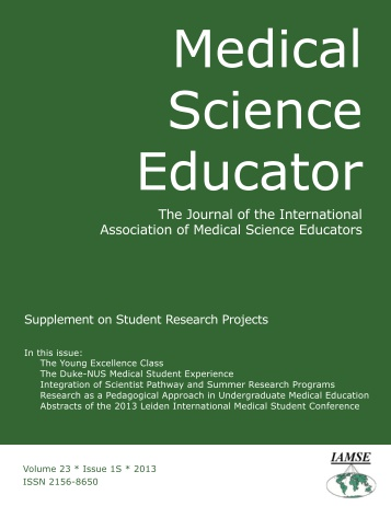 Journal cover for the 23rd volume of Medical Science Educator.